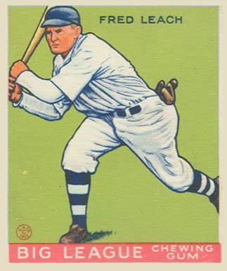 1933 Goudey baseball card of Freddie "Fred" Leach of the Boston Braves #179. PD-not-renewed